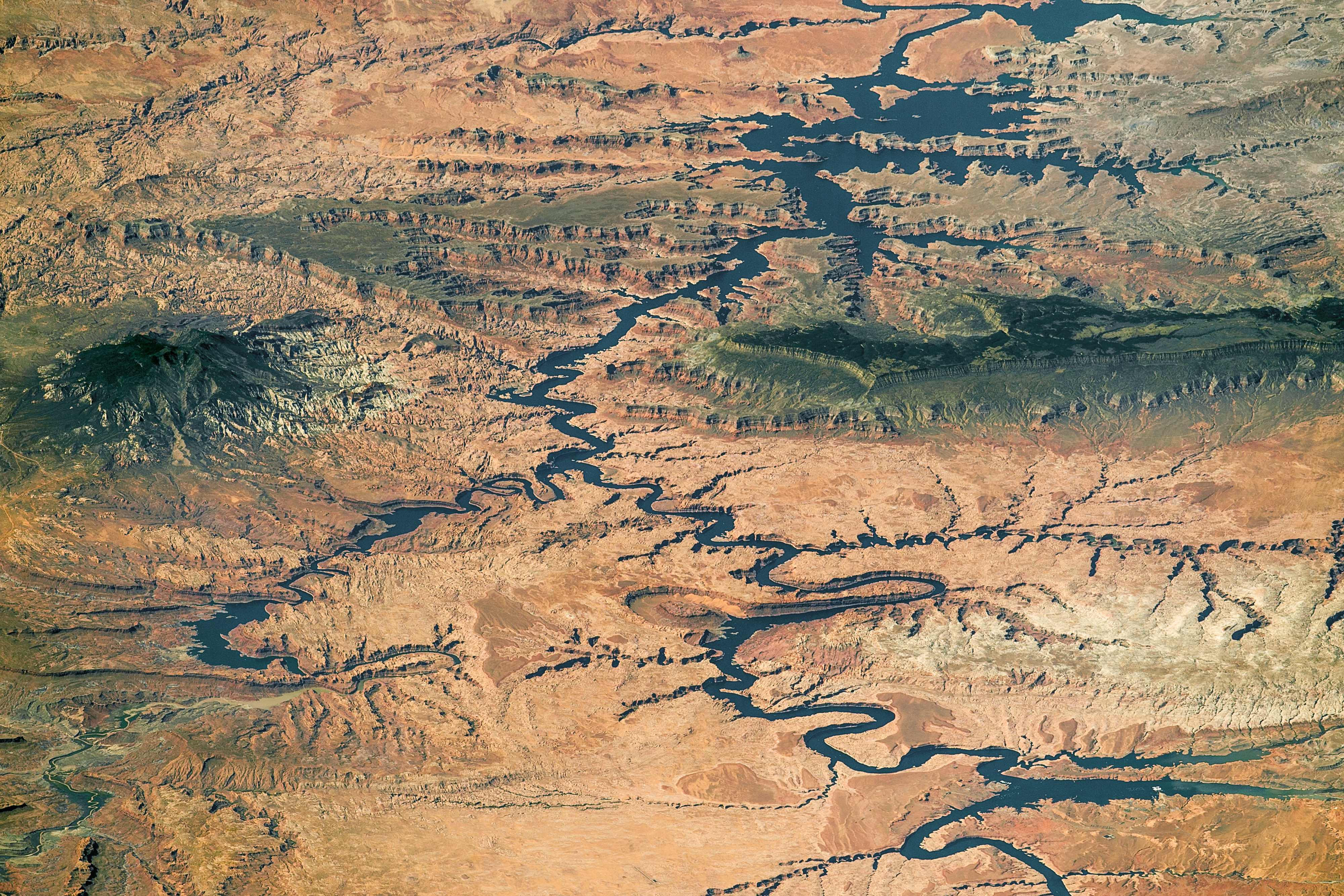 This panorama, photographed by an astronaut aboard the International Space Station, shows nearly the full length of Lake Powell, the reservoir on the Colorado River in southern Utah and northern Arizona. Note that the ISS was north of the lake at the time, so in this view south is at the top left of the image. At full capacity, the reservoir impounds 24,322,000 acre-feet of water, a vast amount that is used to generate and supply water to several western United States, while also aiding in flood control for the region. It is the second largest reservoir by maximum water capacity in the United States (behind Lake Mead). Landscape elevation changes are hard to see from space, but astronauts learn to interpret high and low places by their color. Green forests indicate two high places in the image that are cooler and receive more rain than the dry, low country surrounding the lake. The isolated Navajo Mountain is a sacred mountain of the Native American Navajo tribe and rises to 3,154 meters (10,348 feet). The long, narrow Kaiparowits Plateau rises nearly 1200 meters (4,000 feet) from Lake Powell to an elevation of more than 2300 meters (7,550 feet). More than 80 kilometers (50 miles) long, the plateau gives a sense of horizontal scale. The region draws nearly 2 million people every year, even though it is remote and has few roads. Most of the area in view is protected as part of the Glen Canyon National Recreation Area and the Grand Staircase-Escalante National Monument—the largest amount of protected land in a U.S. national monument.